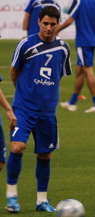 Thiago Neves Augusto or simply Thiago Neves is a Brazilian attacking midfielder